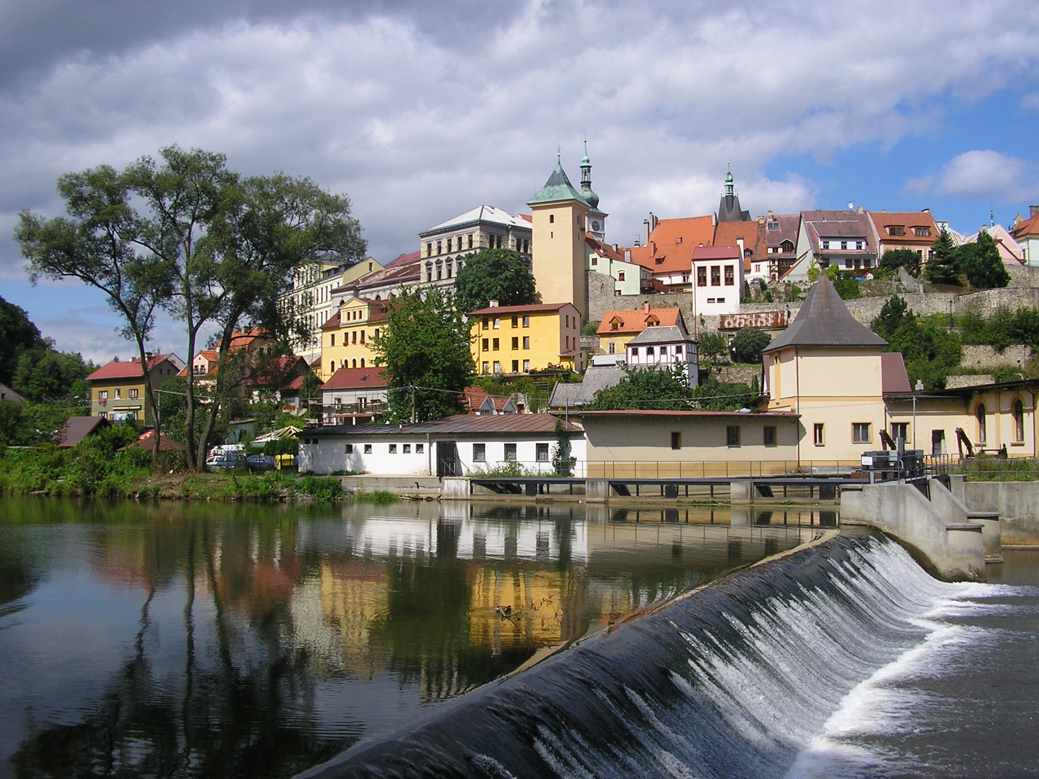 Loket.